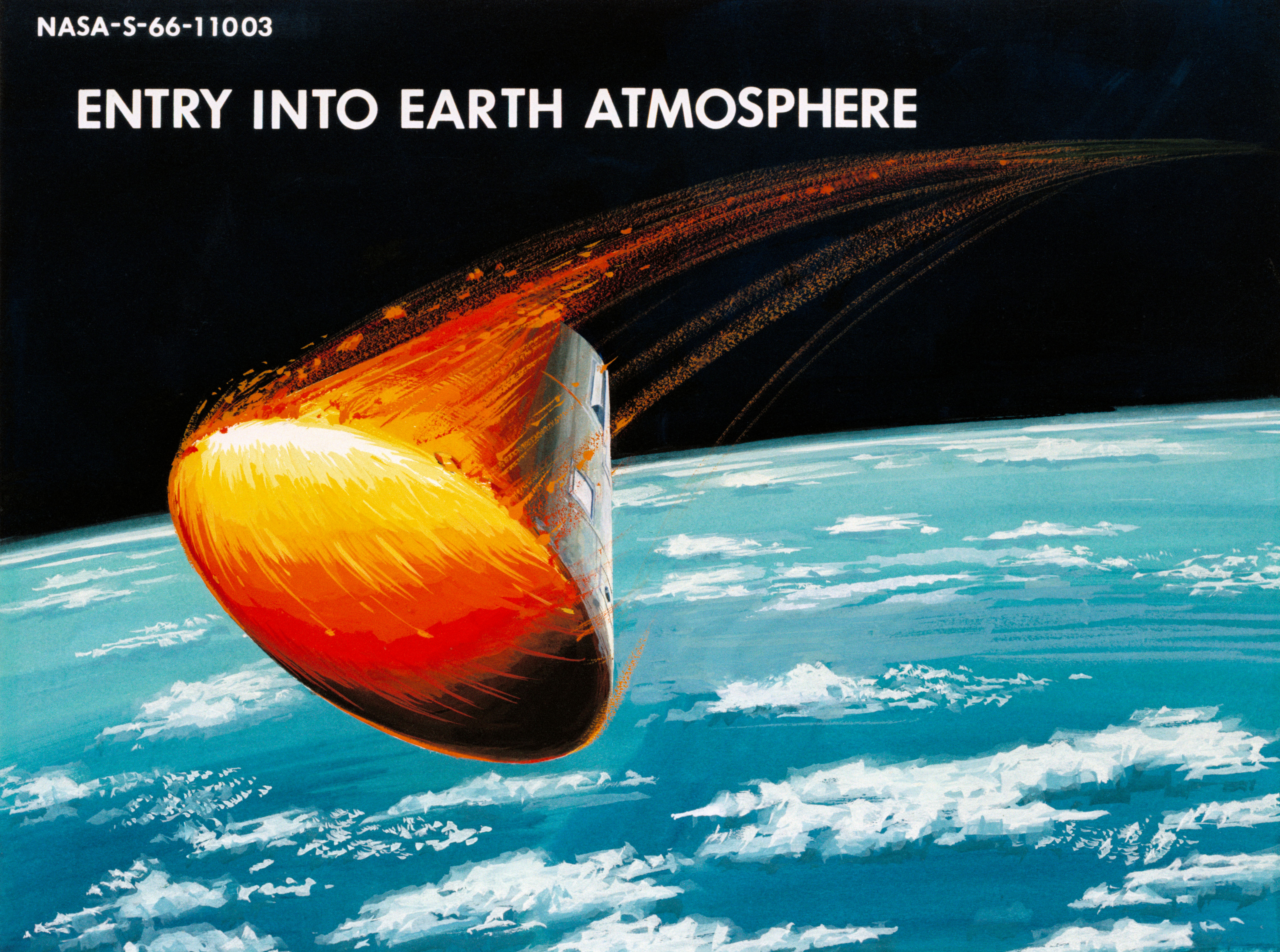 Artist concept of the Apollo Command Module reentering the earth's atmosphere upon its return from a lunar mission.